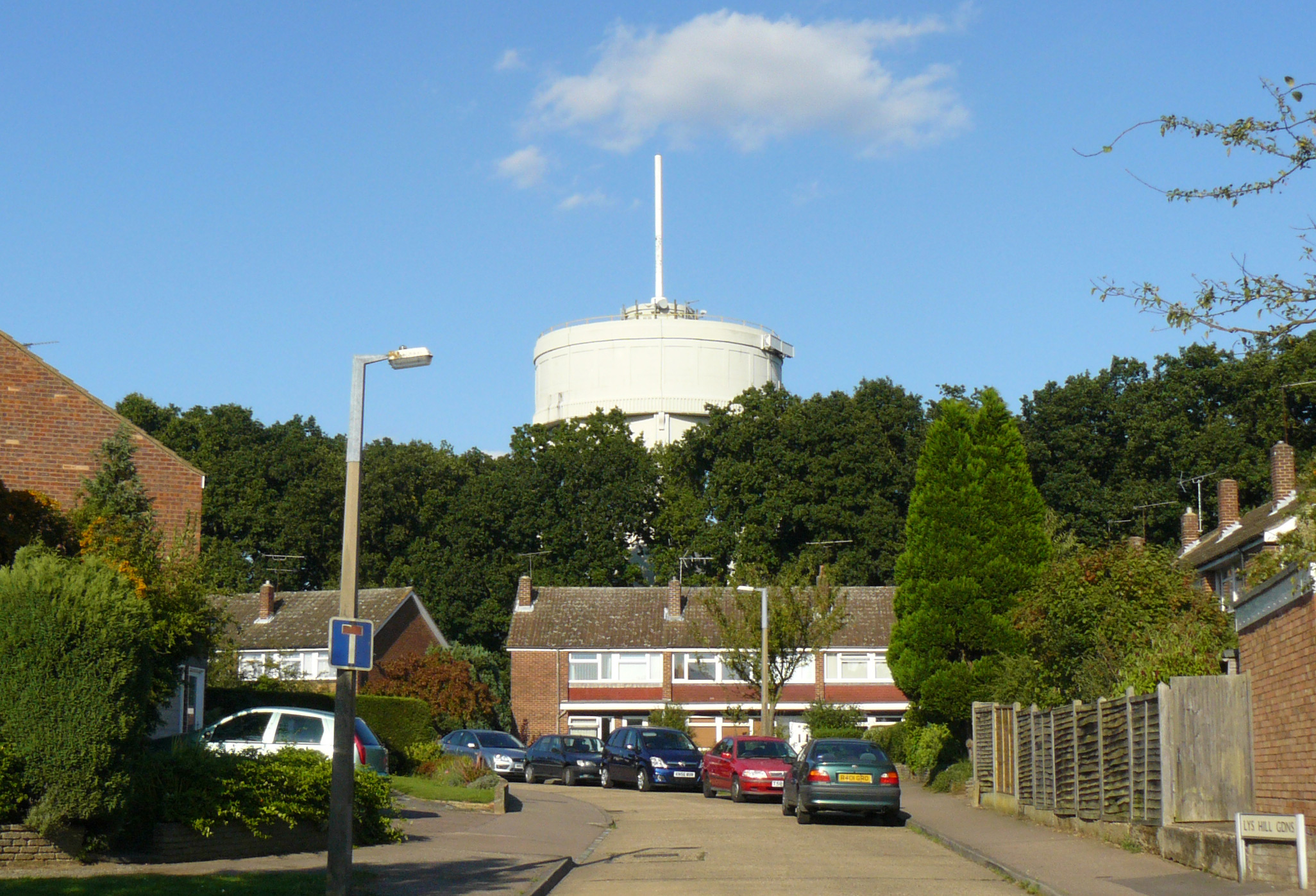 Bengeo Watertower, Author: Jamsta